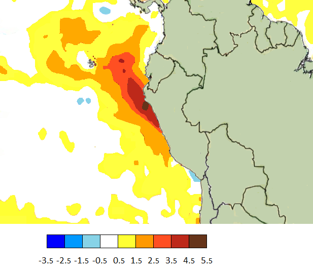 The “Costero” event of 2017. Ocean Temperature Departure from Average Mar 2017